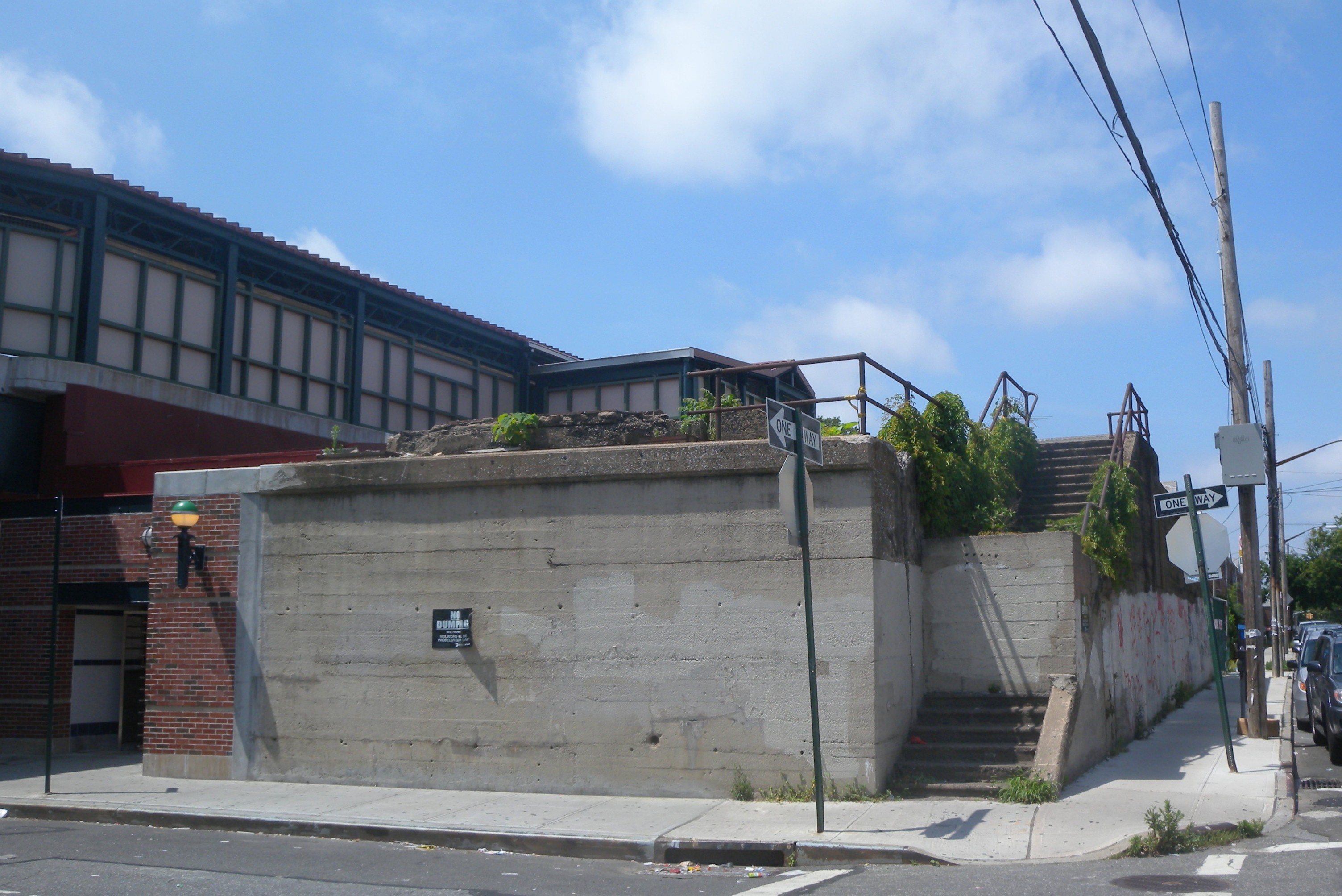 Looking northwest across Gravesend Neck Road on a mostly sunny afternoon at the derelict Neck Road station.